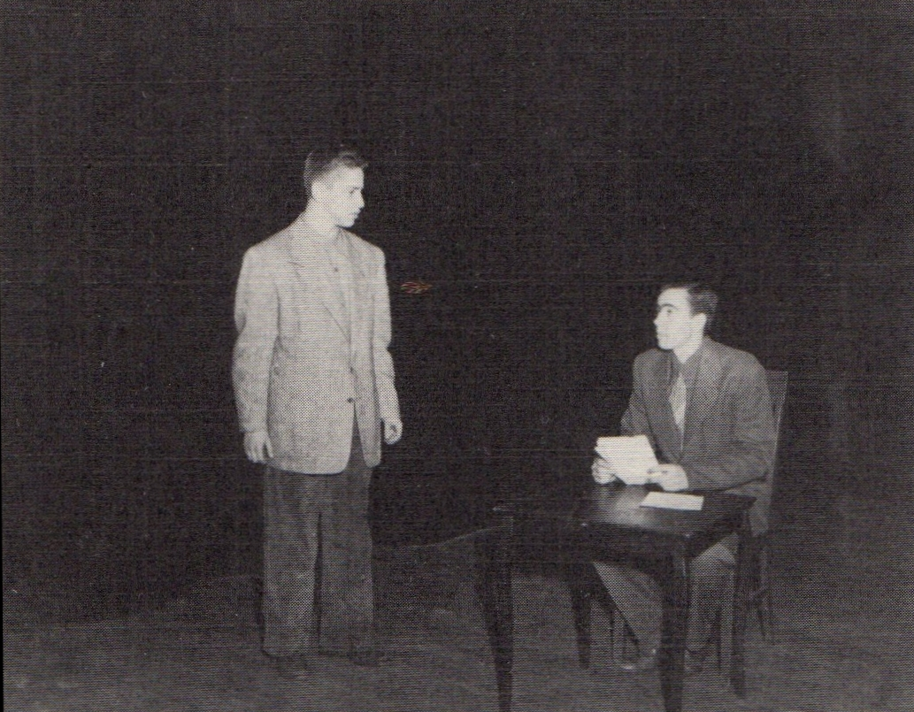 Photograph of the performance of The Finger of God, by Percival Wilde, at Shimer College in 1951-1952, from the 1952 yearbook of Shimer College. Now a liberal arts college in Chicago, Shimer was then located in Mount Carroll, Illinois. The cast included Lee Pana and Les Hammersley, as well as Joan Seever (not shown). Published in the school's 1952 yearbook, which does not contain a copyright notice. Additionally in the public domain due to the terms of dedication of the Shimer College Collection (which includes a copy of this yearbook) to Northern Illinois University in 1979, which vested literary rights in the collection in the public.